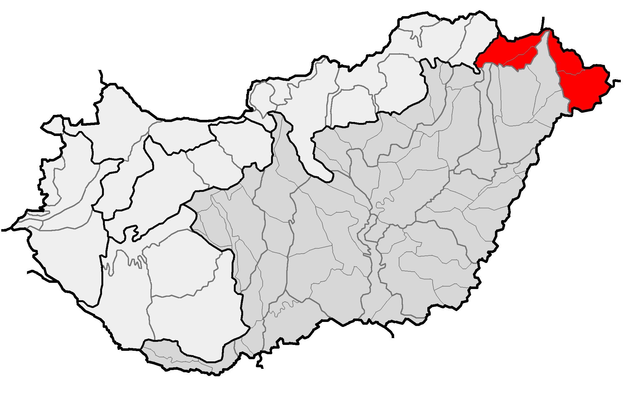 Location of geographical mesoregion of Felső-Tisza-vidék (red) and macroregion of Alföld (gray) within subdivisions of Hungary.